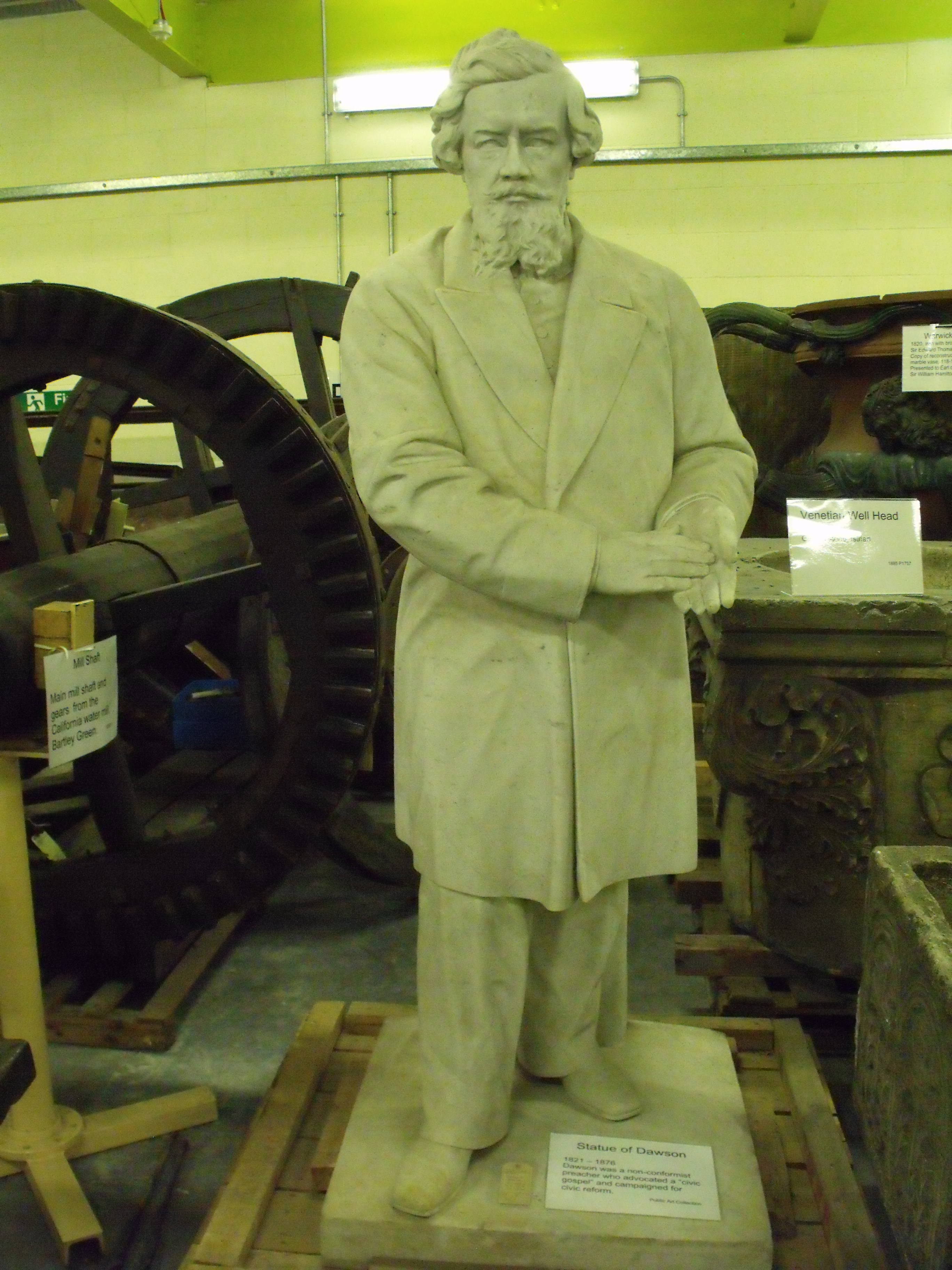 I went to the Open Day at the Museum Collections Centre - 25 Dollman Street on the 13th of May 2012. At the Dollman Street Stores they have objects that are not currently on display in the Birmingham Museum & Art Gallery or Think Tank. Some items used to be in the old Museum of Science & Industry on Newhall Street. The garage area of the warehouse with old cars, motorbikes etc. Finally I have found the statue of George Dawson at Dollman Street. It used to be in Chamberlain Square (a long time ago). It was near the fountain and Chamberlain Memorial. Statue of Dawson 1821 - 1876 Dawson was a non-conformist preacher who advocated a "civic gospel" and campaigned for civic reform. Public Art Collection. When it was in Chamberlain Square it was Grade II listed. Statue of George Dawson and Surrounding Railings, Birmingham CHAMBERLAIN SQUARE 1. 5104 City Centre B3 Statue of George Dawson 21.1.70 and surrounding railings (formerly listed as Dawson Monument under Chamberlain Place) SP 0686 NE 33/10 II 2. Stone statue of George Sawson (1821-1876) by Thomas Woolner, 1880, in a modern setting utilising part of the sates from the entrance to the old Reference Library. They are about 12 ft high ham a rosette pattern and were executed in the late C19 by the Birmingham Guild Company. Listing NGR: SP0664886972